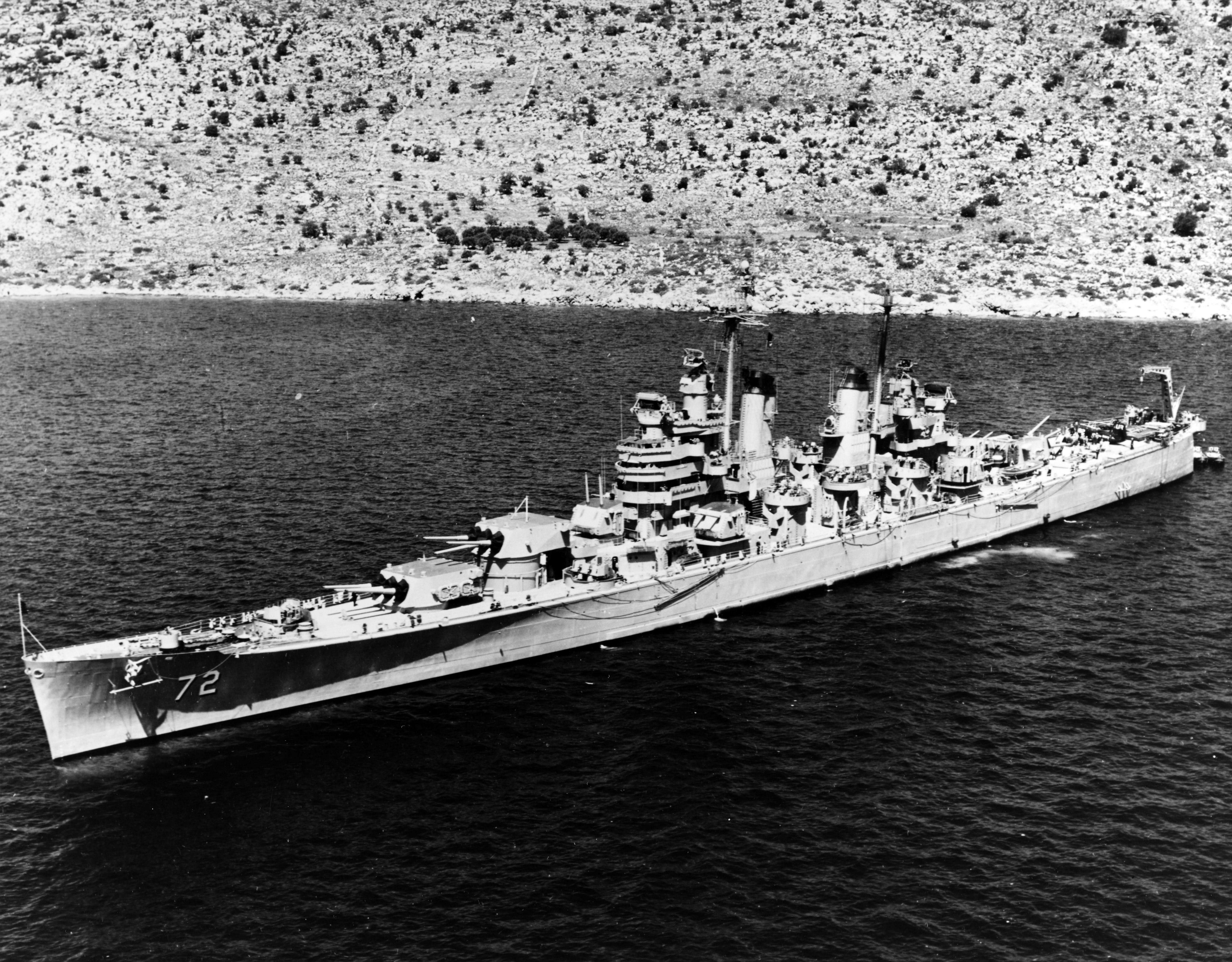 The U.S. Navy heavy cruiser USS Pittsburgh (CA-72) anchored in Souda Bay, Crete, 8 May 1952.